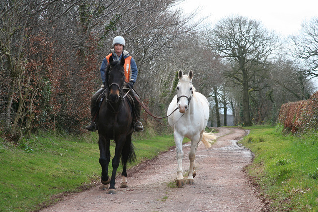 Sampford Peverell: Whitnage Lane. Exercising horses from nearby Newhill Farm